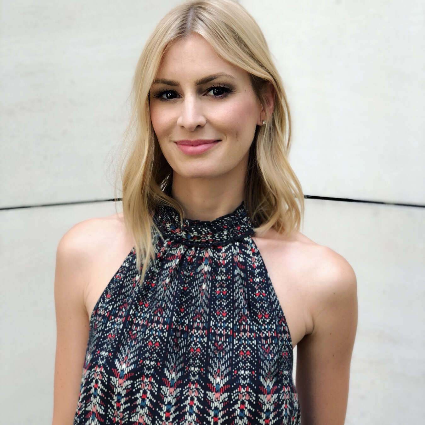 TV Host, Karolin Kandler